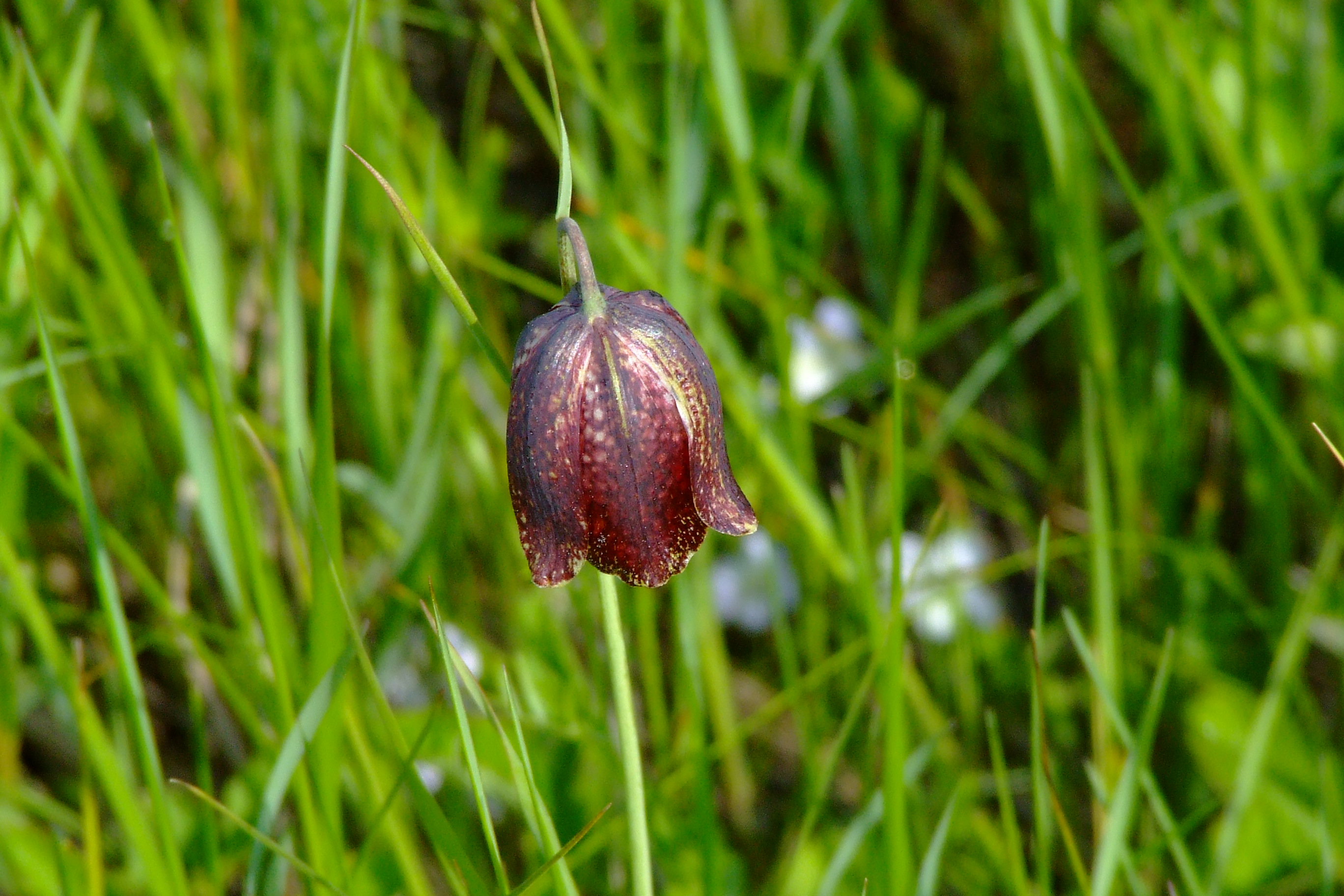 Fritillaria meleagroides, Aldomirovtsi marsh, Bulgaria